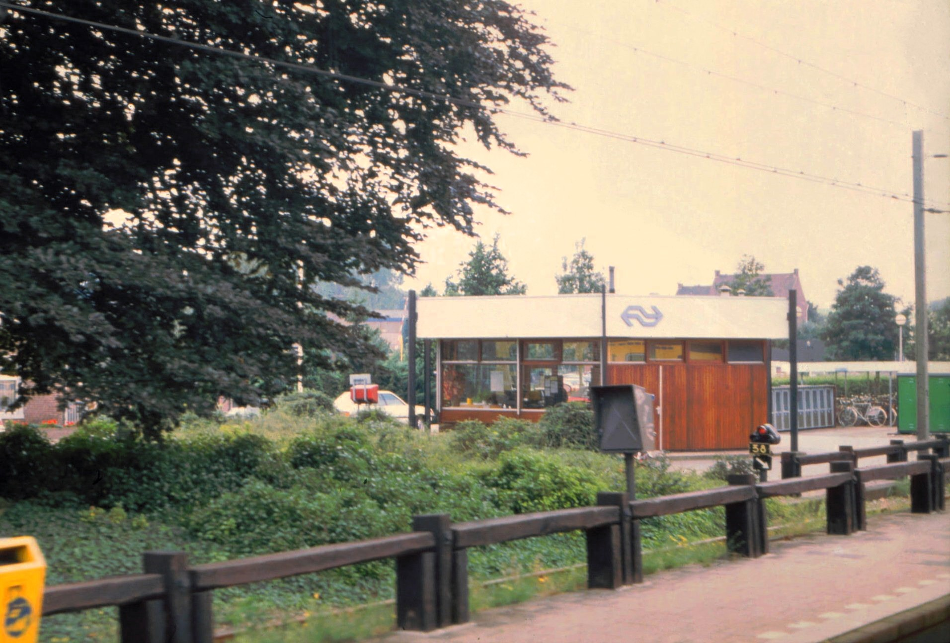 Railway station Beek-Elsoo, the Netherlands